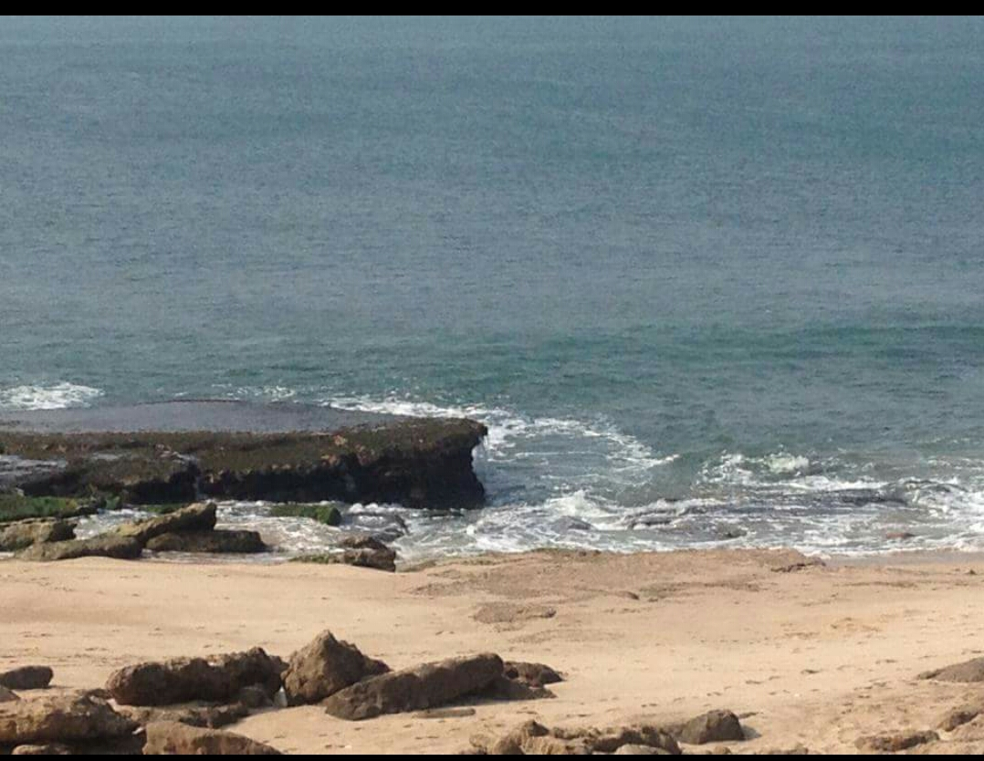 This image is of Holiday camp located at Mangarol,Gujarat,India The natural beauty of Gujarat.